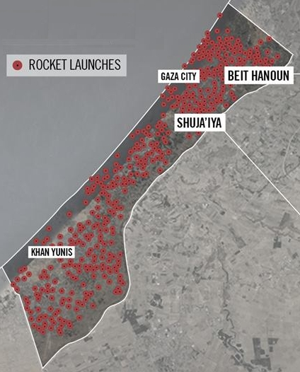 This is a derivative work of File:Map-of-rockets-launches-from-gaza-from-2014-07-08-to-2014-07-31.jpg released under CC-SA-2.0